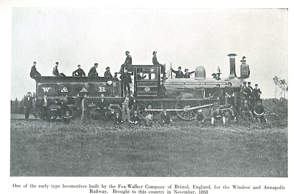 Photograph of Windsor and Annapolis Railway locomotive Gabriel at Kentville, Nova Scotia, circa 1870